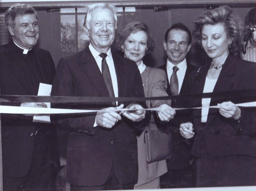 President Jimmy Carter assisted by Mrs Raaja Salaam in opening The Salaam Intercultural Resource Center donated by Hany Salaam to Georgetown University. Hany Salaam stands behind and smiles as the centre dedicated to his father is opened.